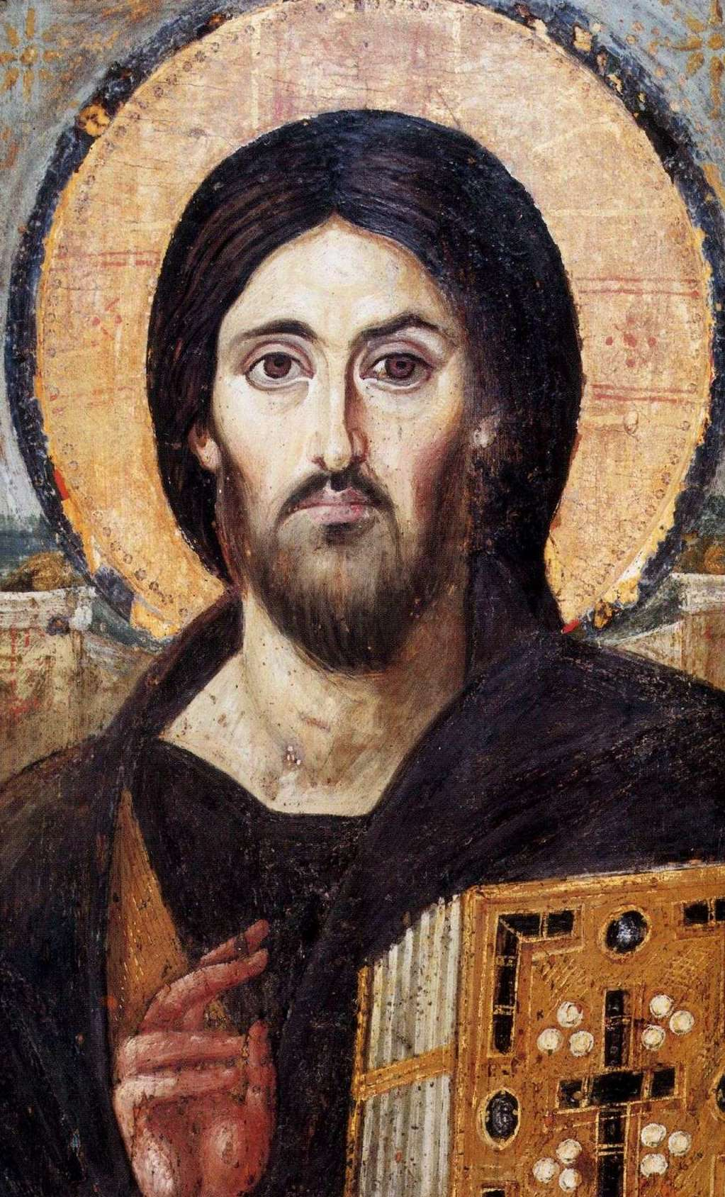 Christ the Saviour (Pantokrator), a 6th-century encaustic icon from Saint Catherine's Monastery, Mount Sinai. NB - slightly cut down - for full size see here